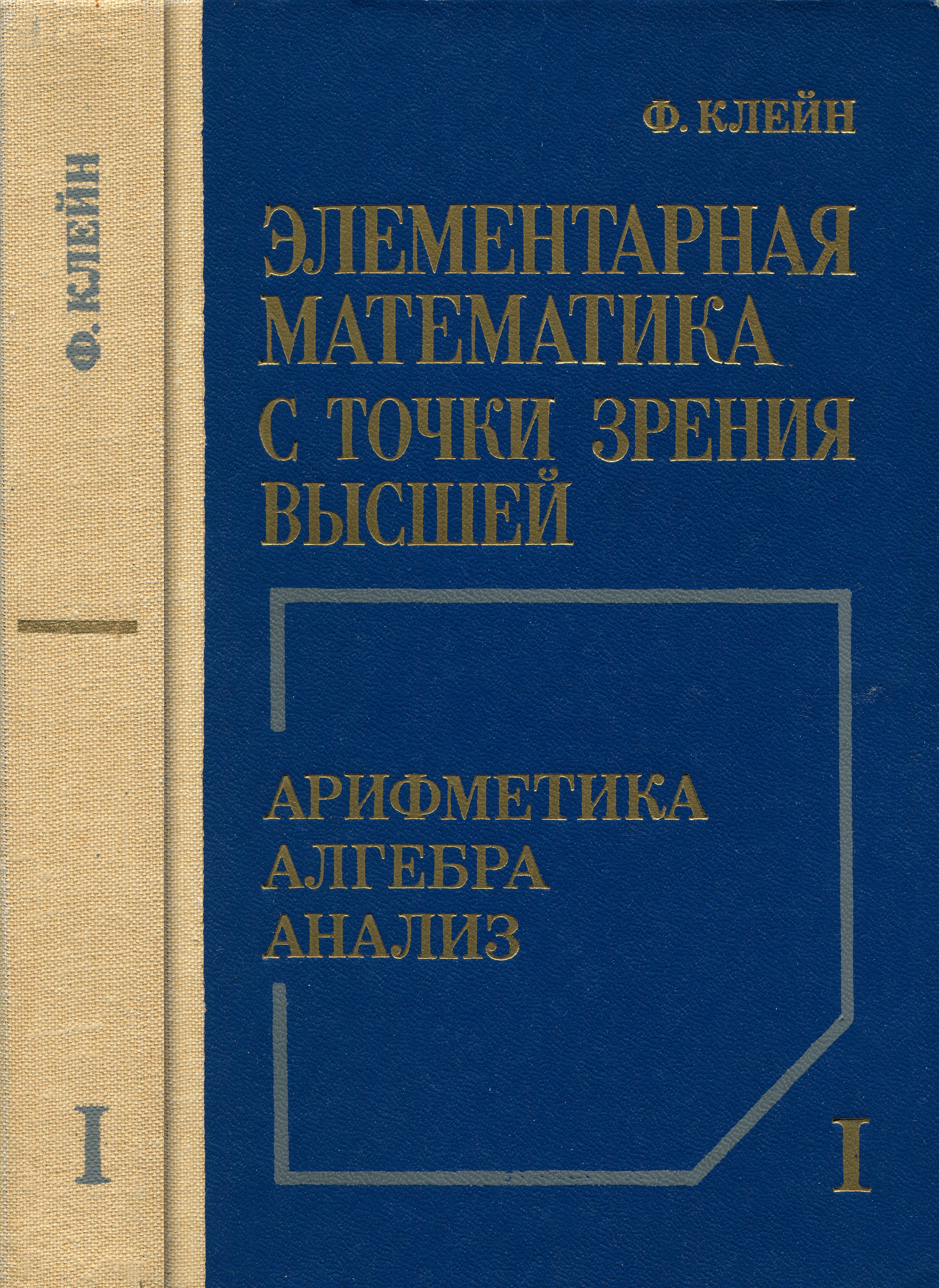 Book. Felix Klein.